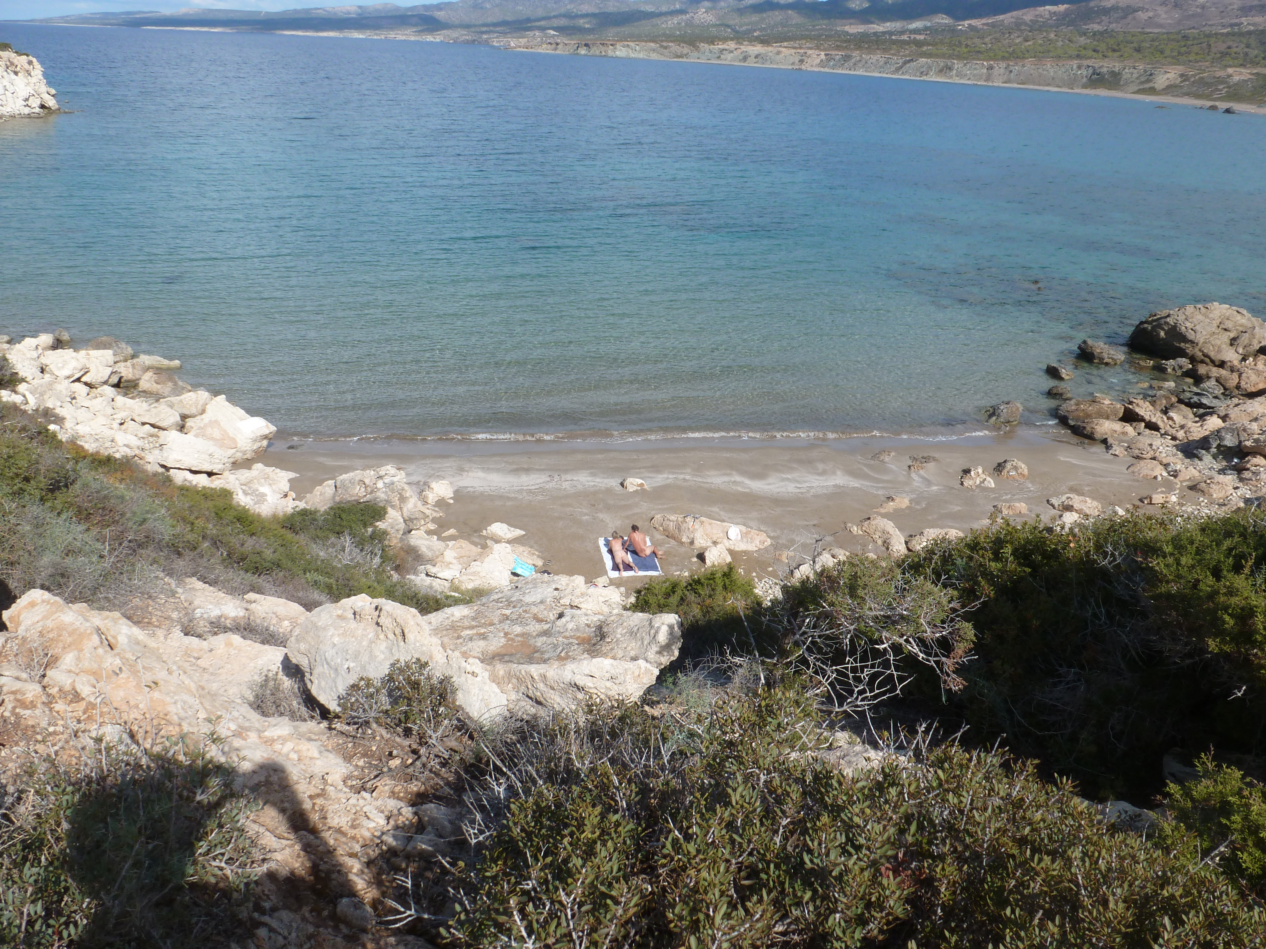 Ammoui